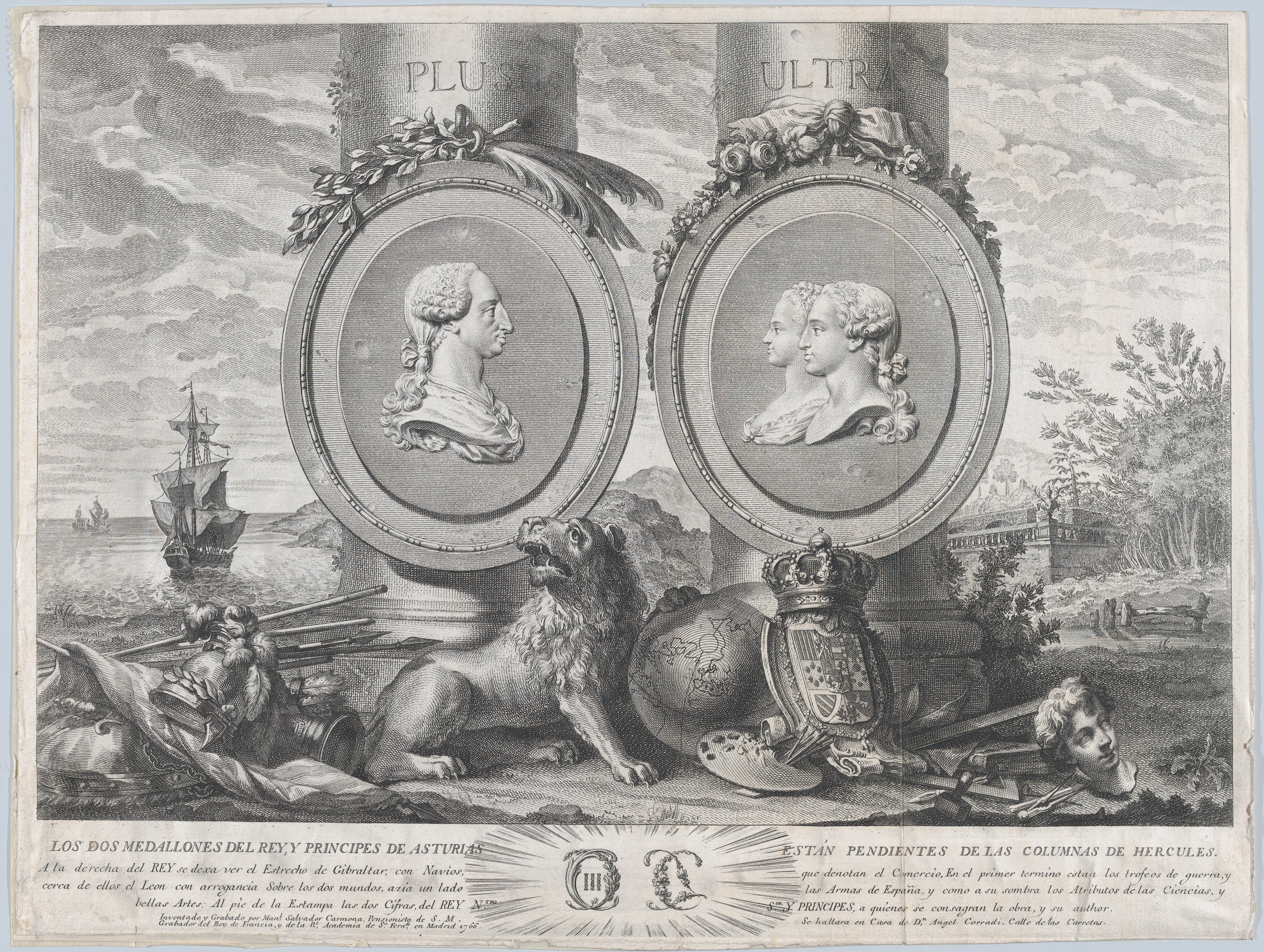 Print; Prints